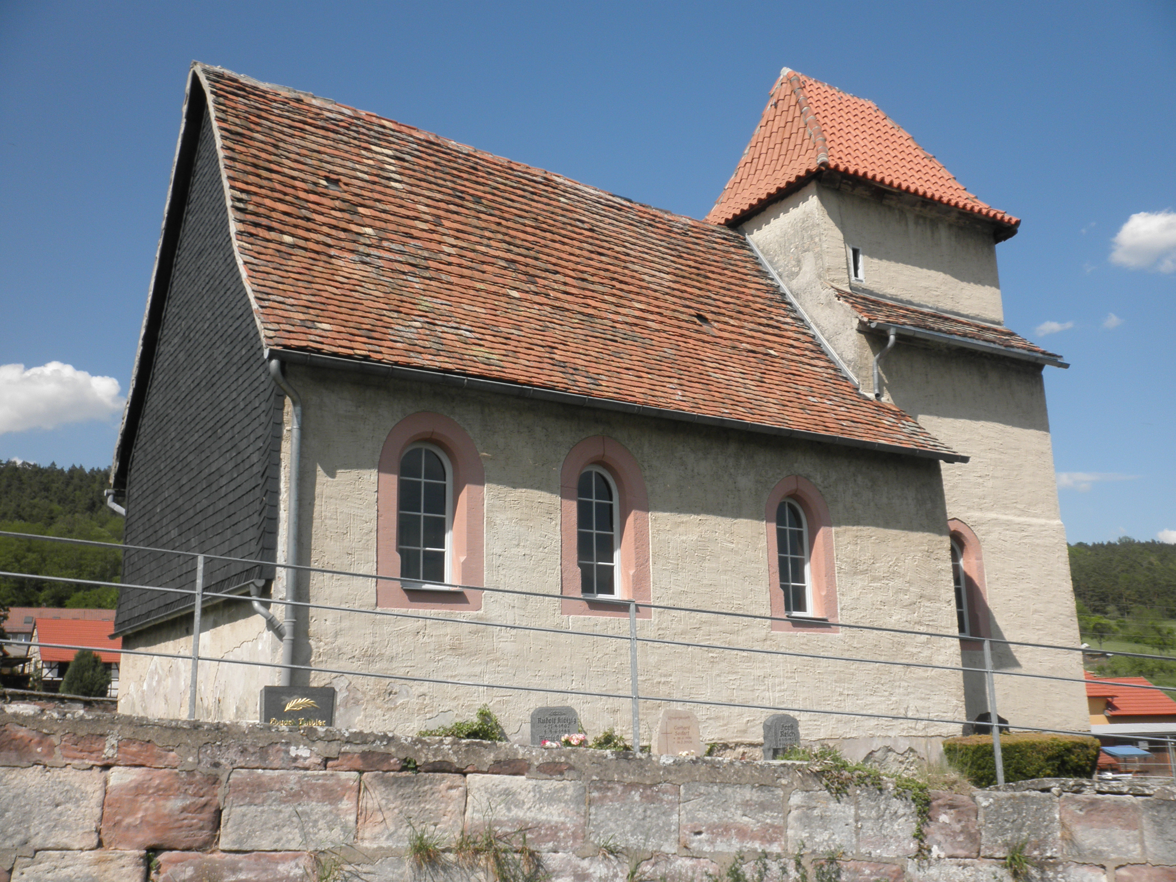 Church in Zwabitz in Thuringia